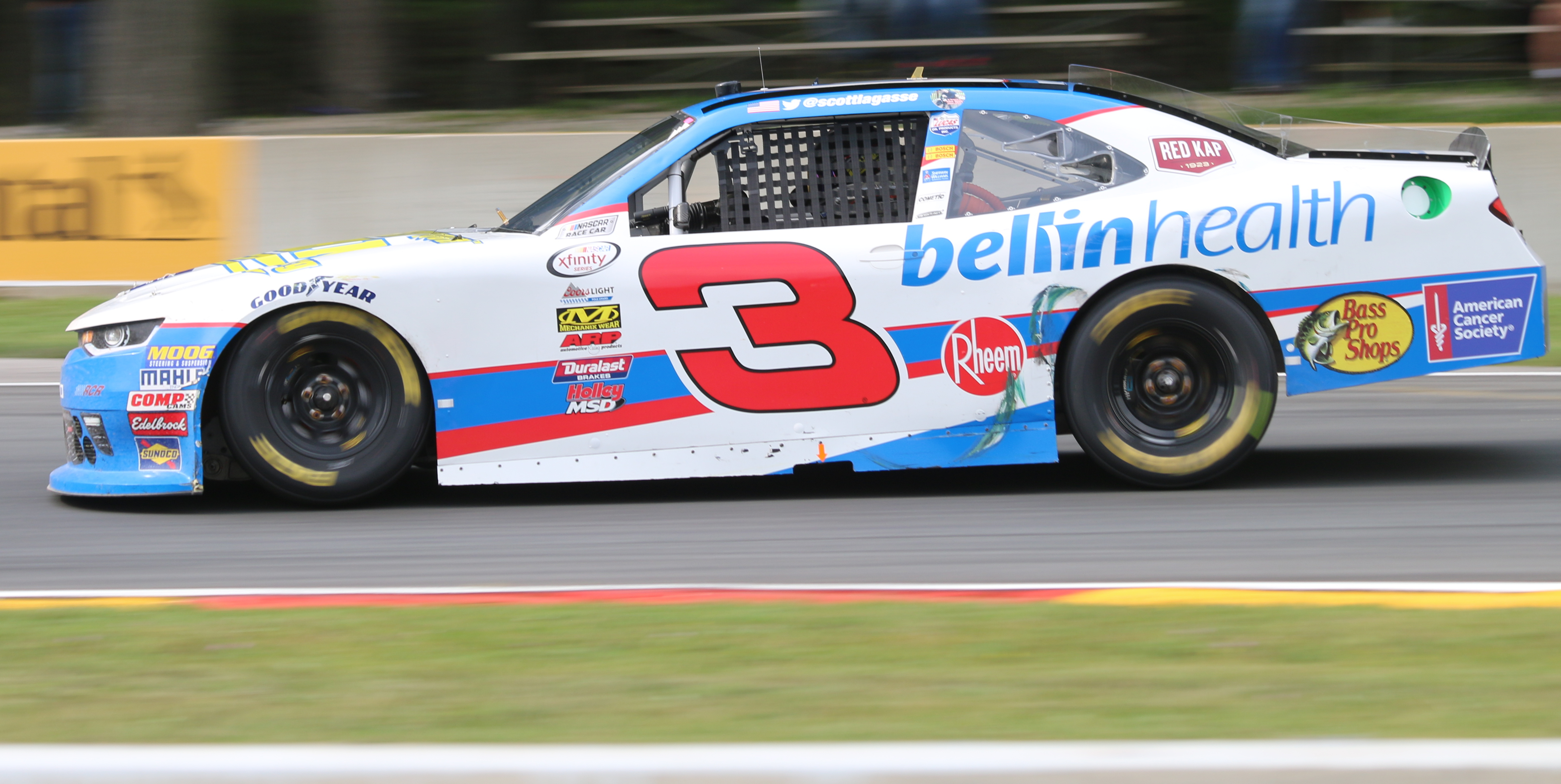 The Chevrolet Camaro of Scott Lagasse Jr. at the NASCAR Xfinity Series Johnsonville 180.